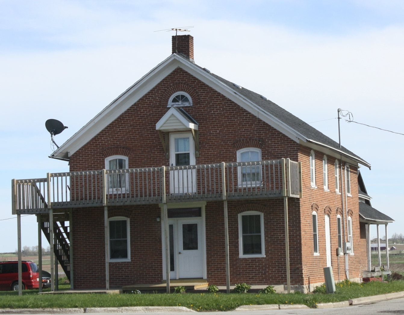 The J.B. Bouche House. It is listed on the National Register of Historic Places.